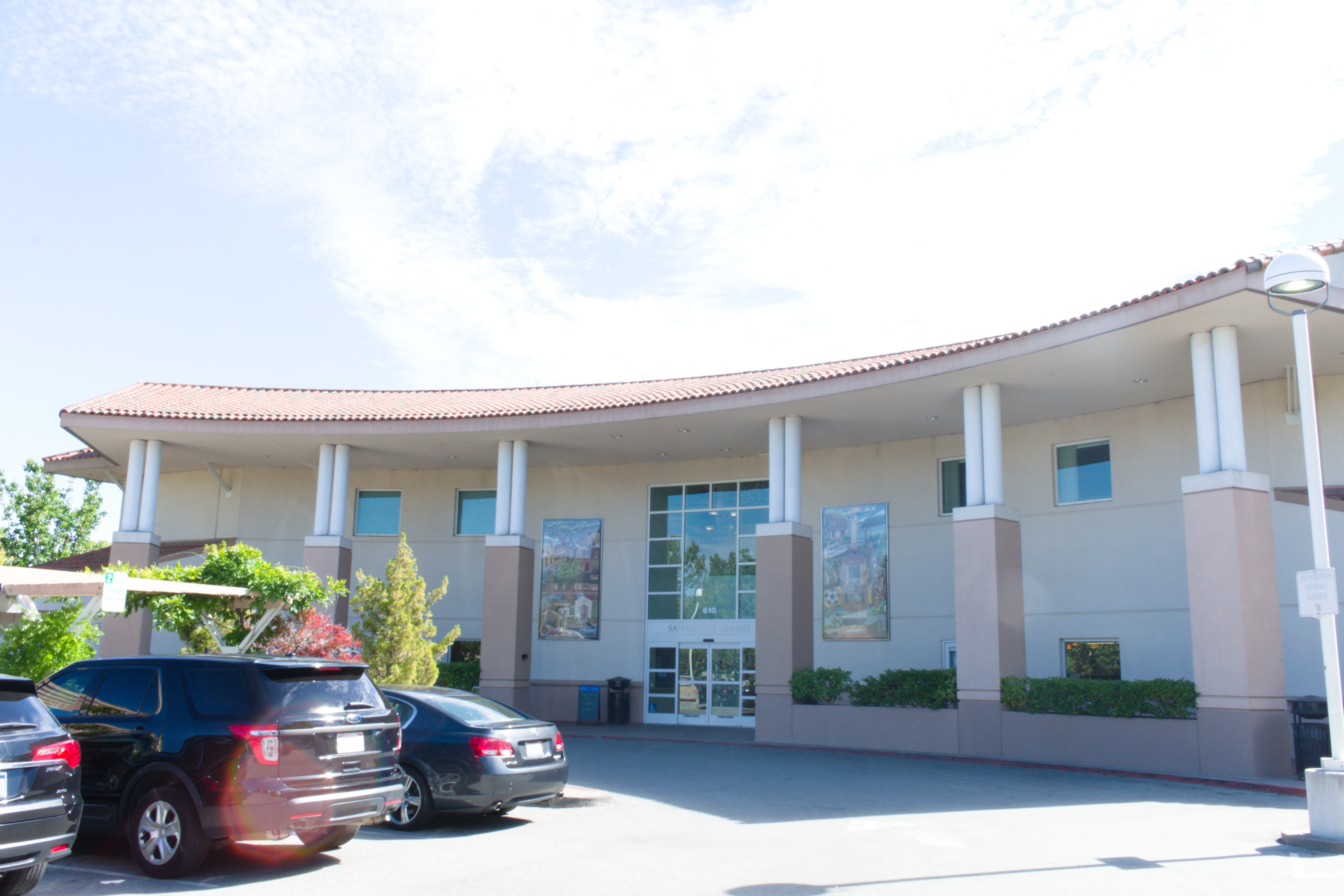 Entrance of the San Carlos Library in San Carlos, California